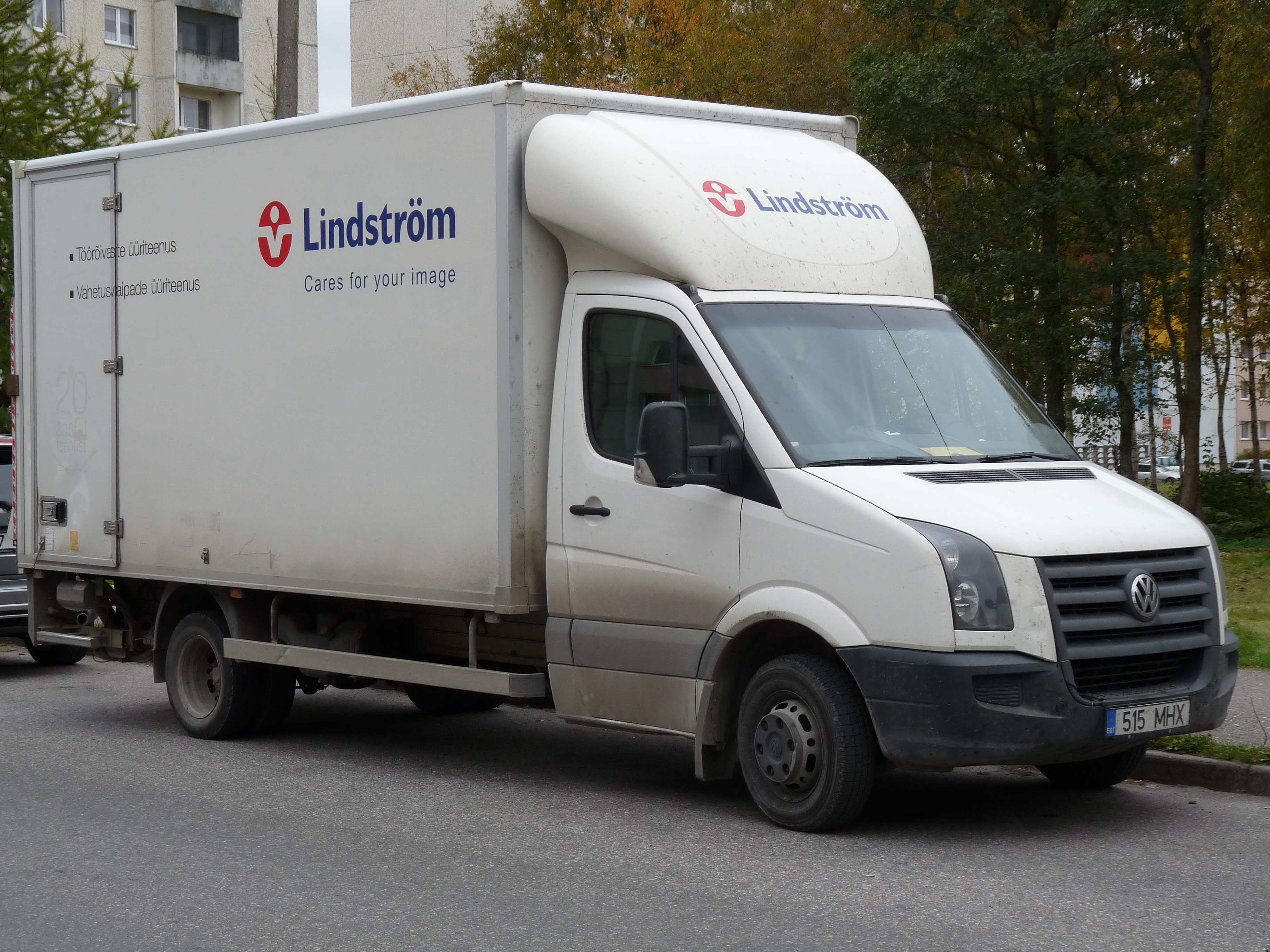 Volkswagen vehicle in Tallinn, Estonia